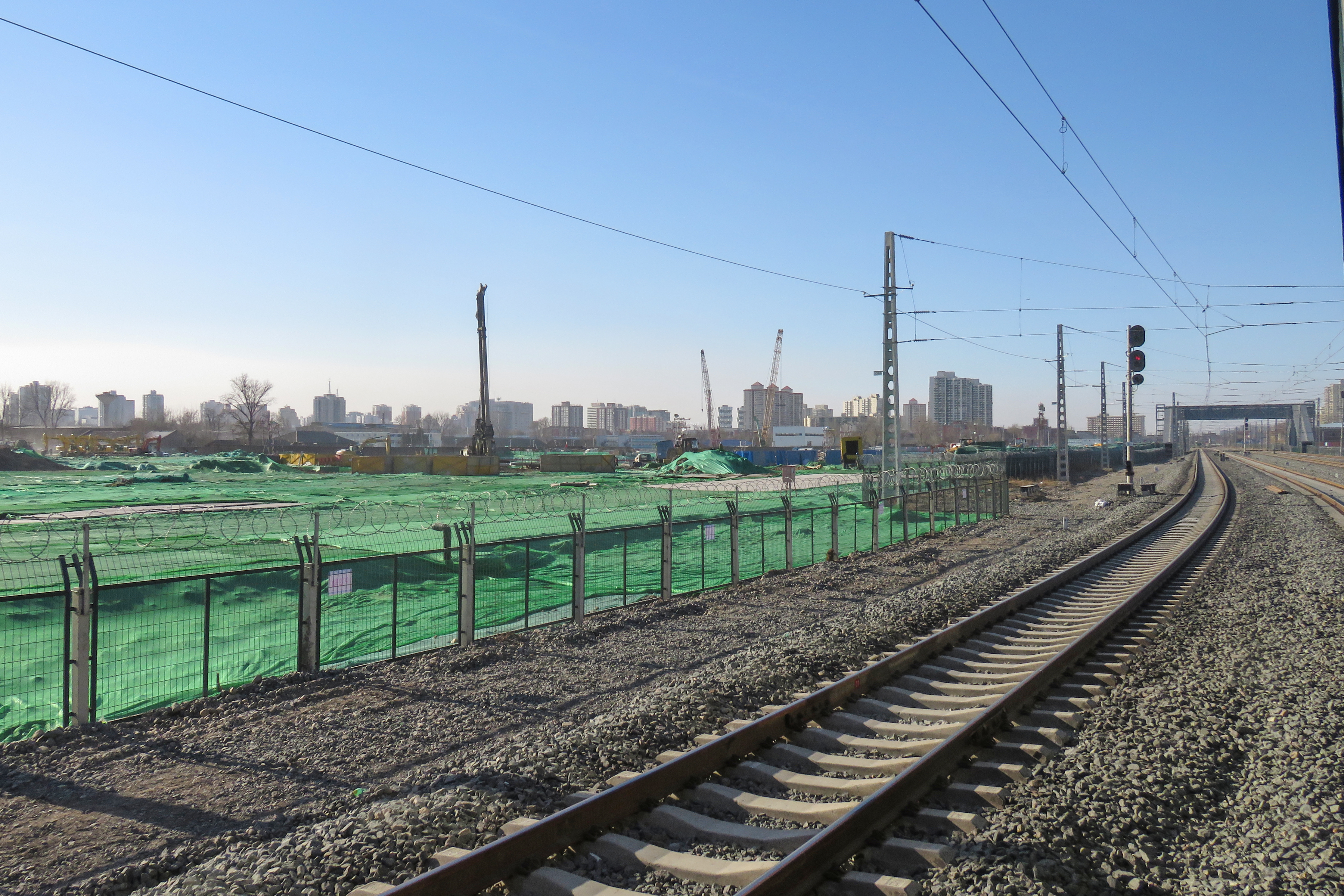 The "Great Prairie of Fengtai" taken from the very last 6452.